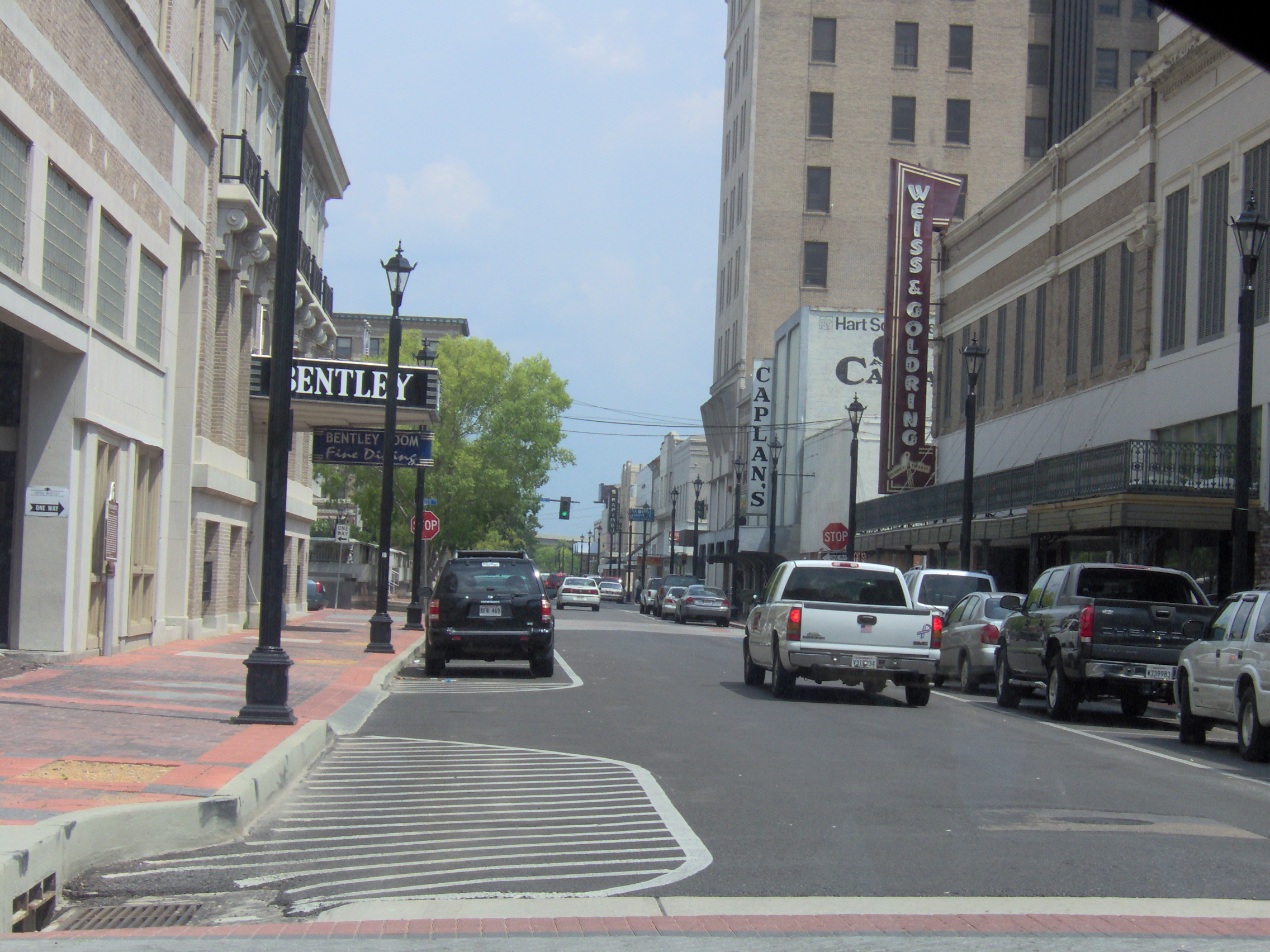 Taken in June of 2007 at the corner of Jackson St. and 3rd St. in Downtown Alexandria.